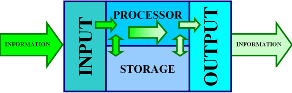 block diagram of components of an information processing system created by COMPATT for use in my freshmen computer basics class in 1998 as part of a powerpoint presentation